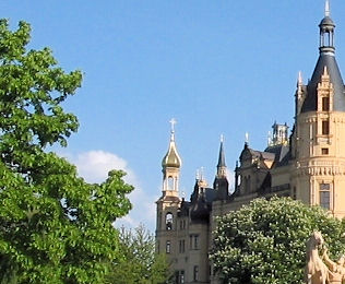 Tower of church (middle position) at Schwerin Castle, Mecklenburg-Vorpommern, Germany